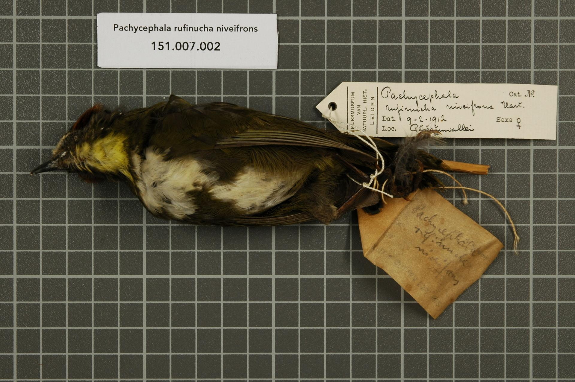 Pachycephala rufinucha niveifrons Hartert, 1930